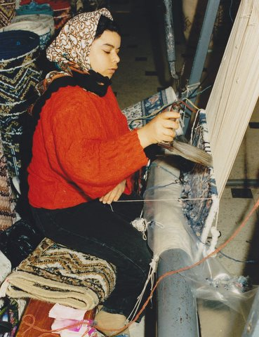 Weaving girl